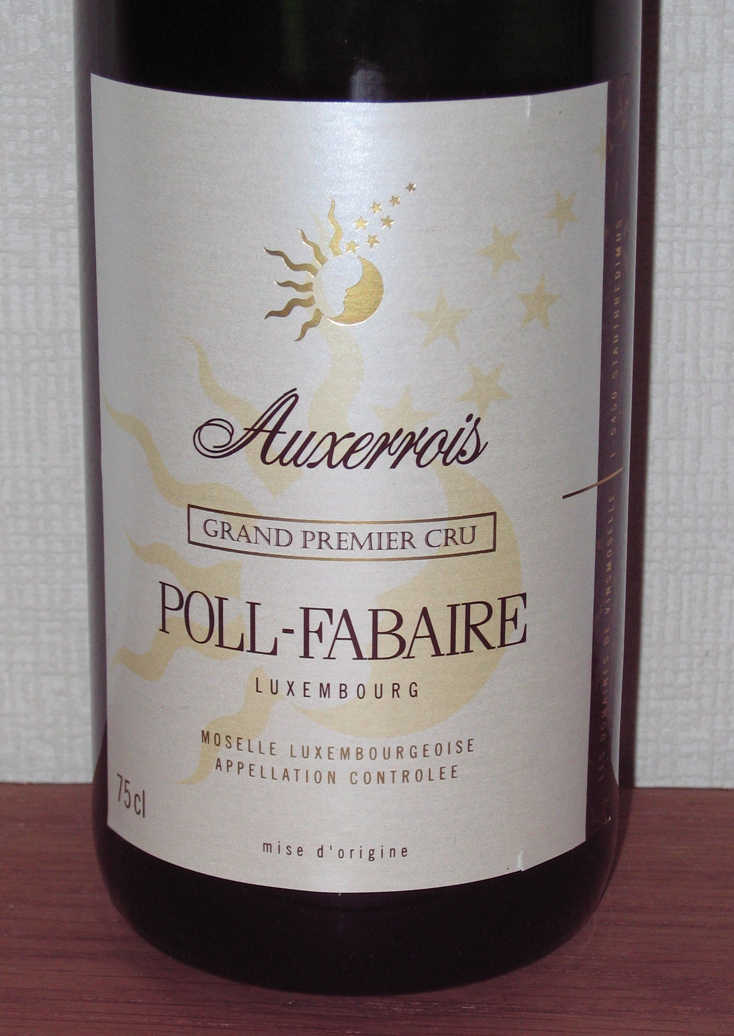 A bottle of Auxerrois wine from Luxembourg, closeup of label